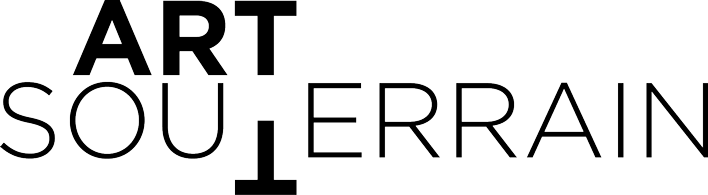 The Art Souterrain logo is a reminder of the organization's annual eponymous contemporary art festival held in the basement of downtown Montreal.